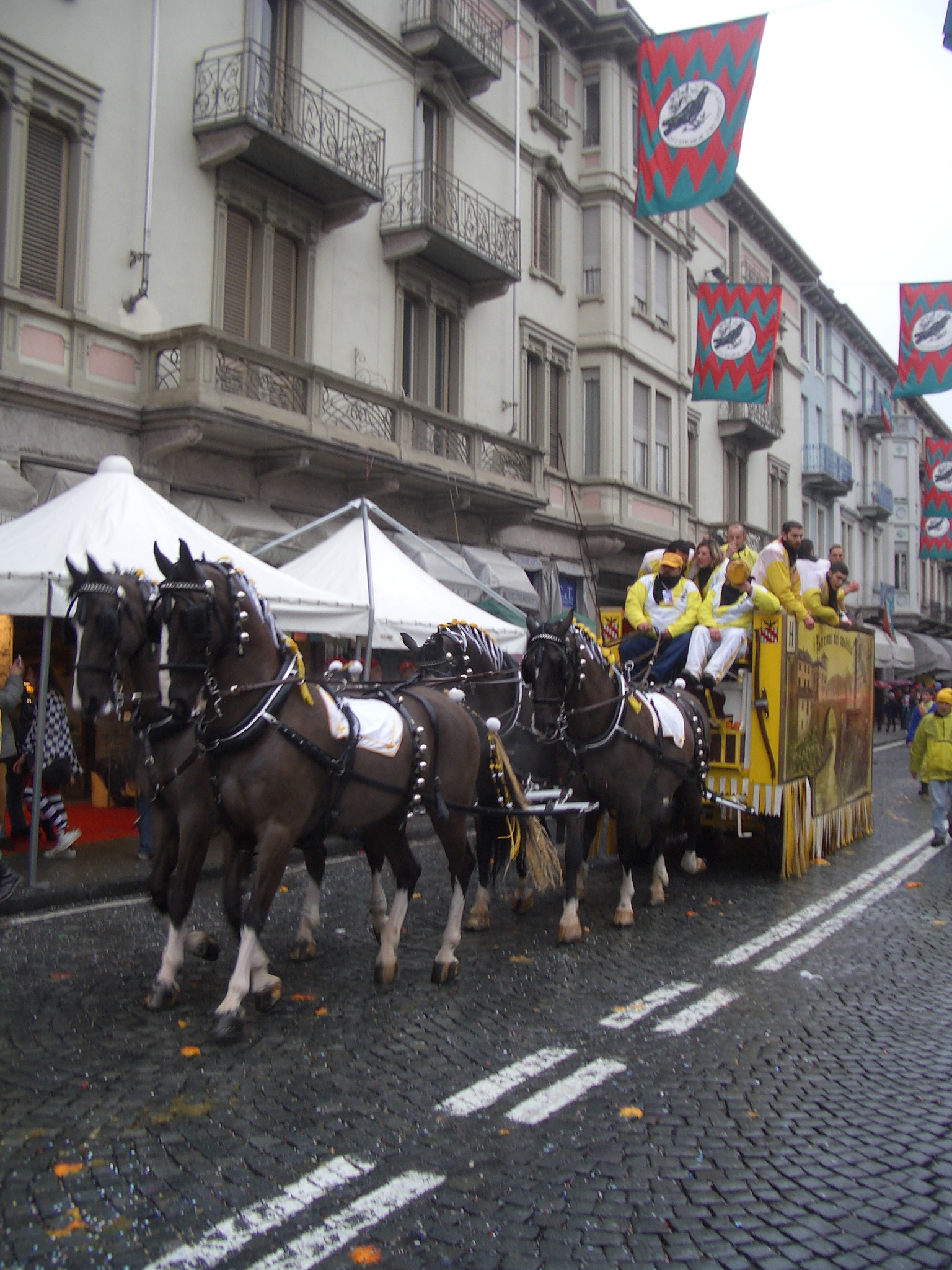 Carnival of Ivrea, Carro da getto; tiro a quattro ( Four horse carriage taking part to the orange-battle)